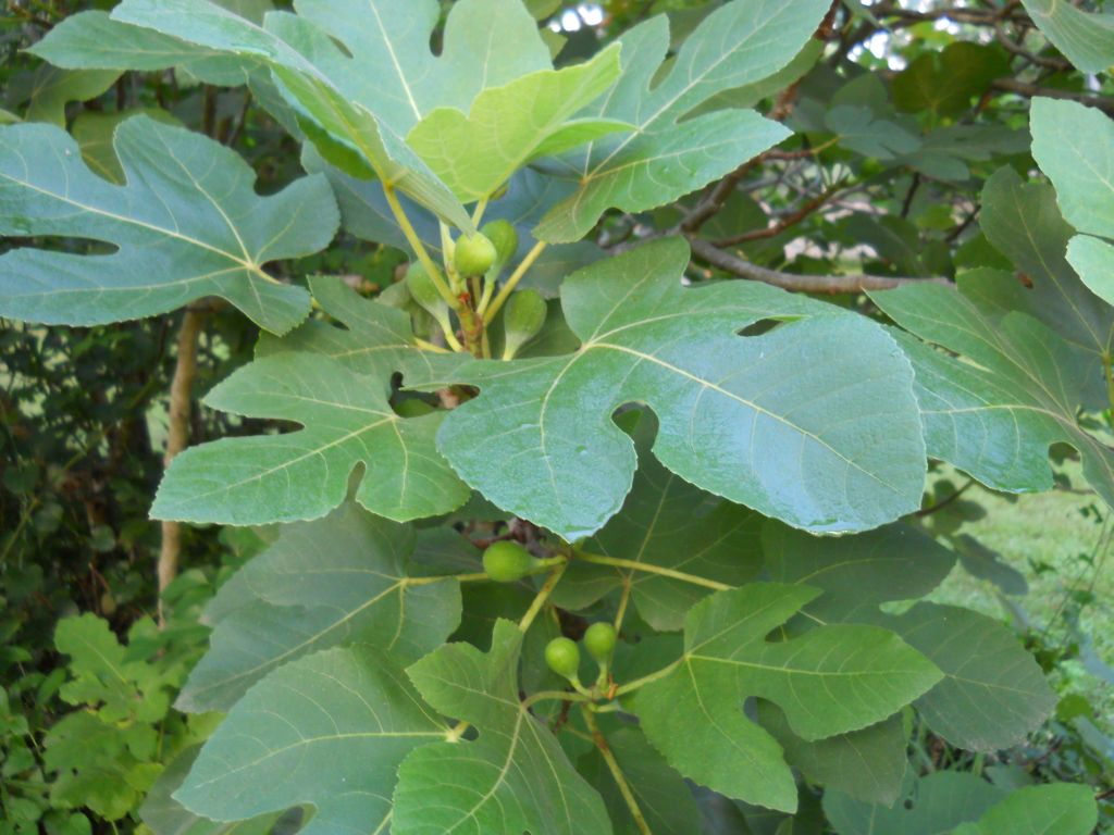 Leaves and immature fruit of common fig